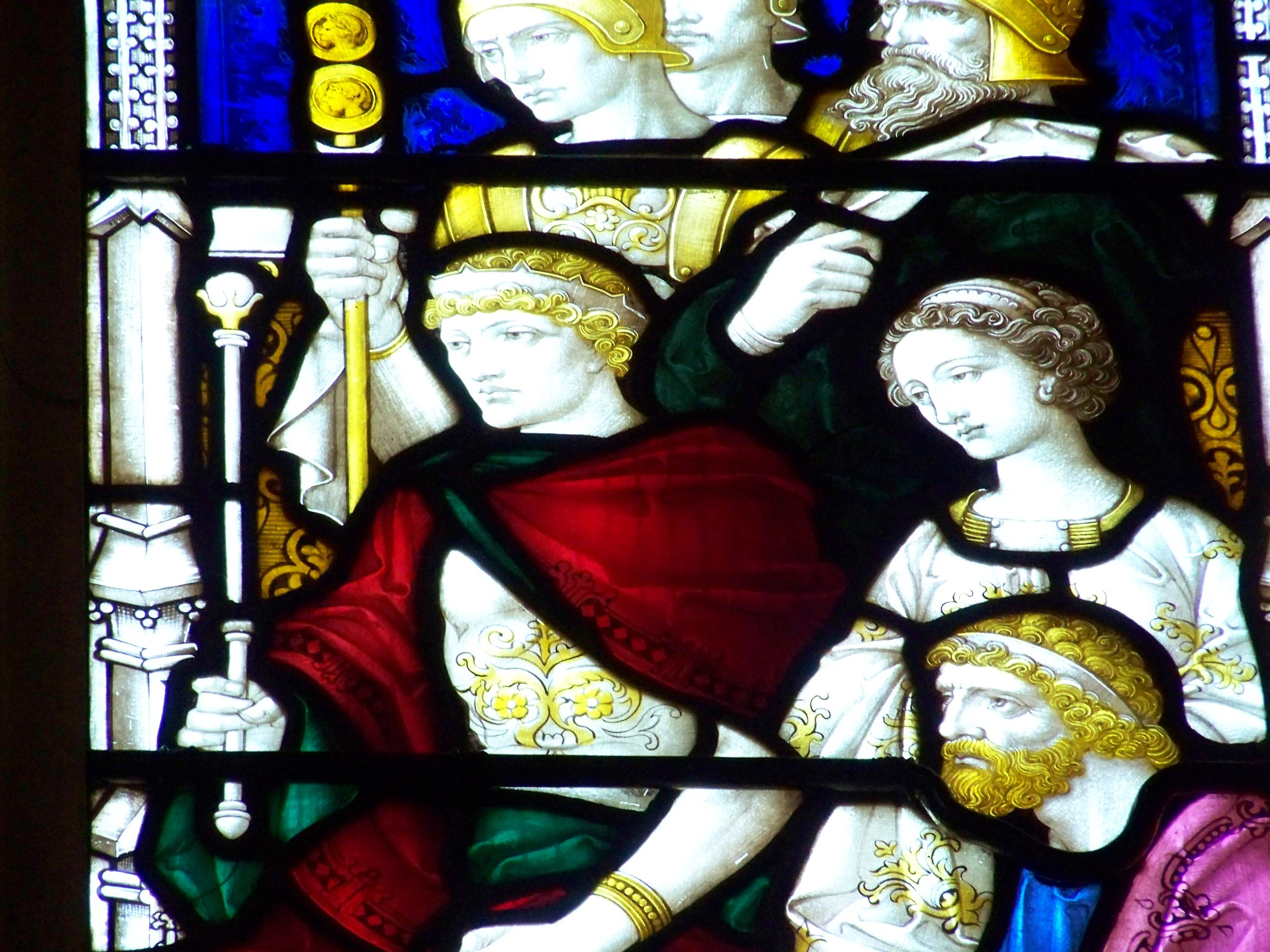 Detail of a stained glass window in St Paul's Cathedral, Melbourne, depicting a scene from the Book of Acts with St. Paul, Agrippa and Berenice.